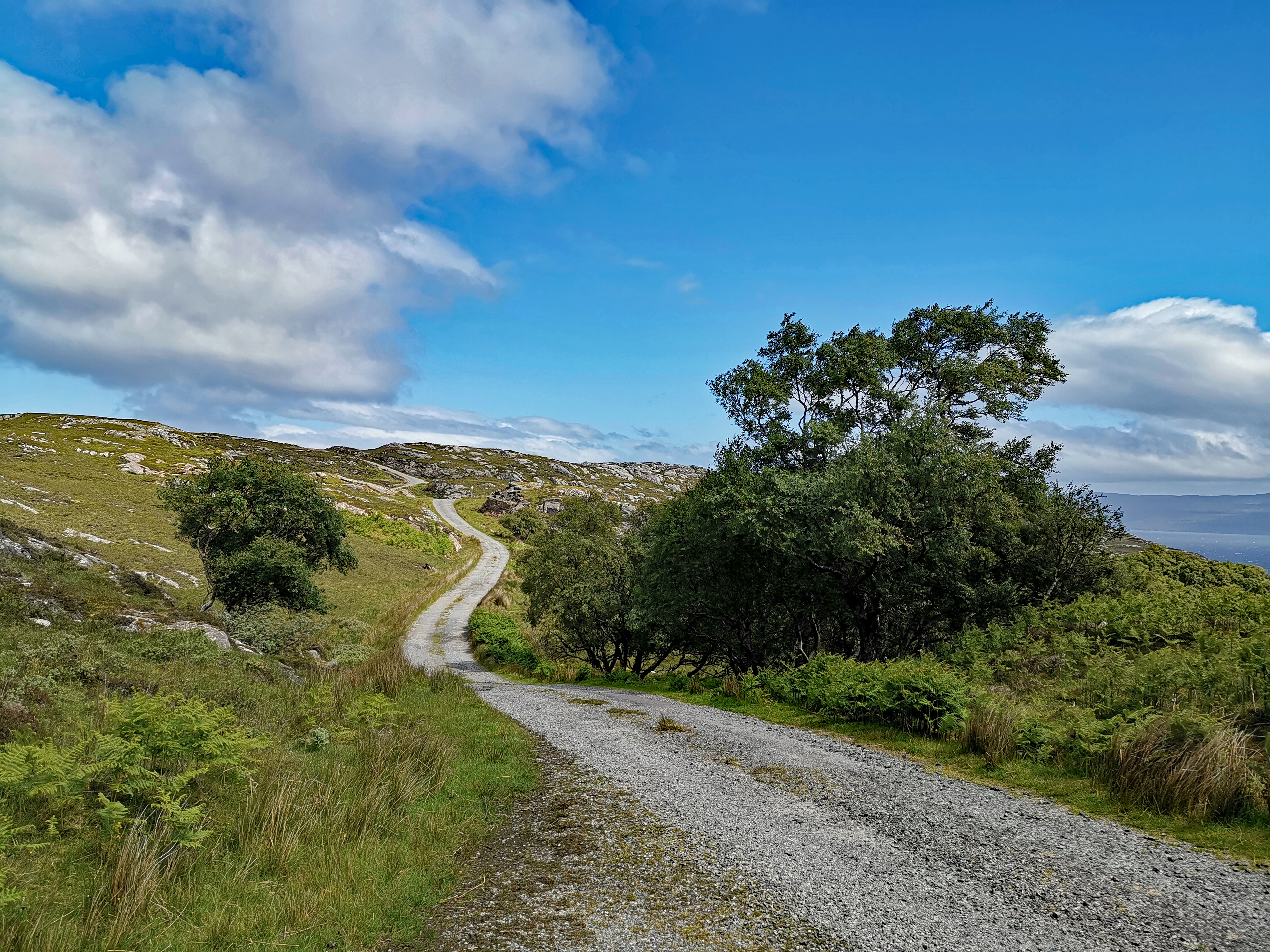 Raasay, Calum's Road (Inner Hebrides, Scotland, UK)